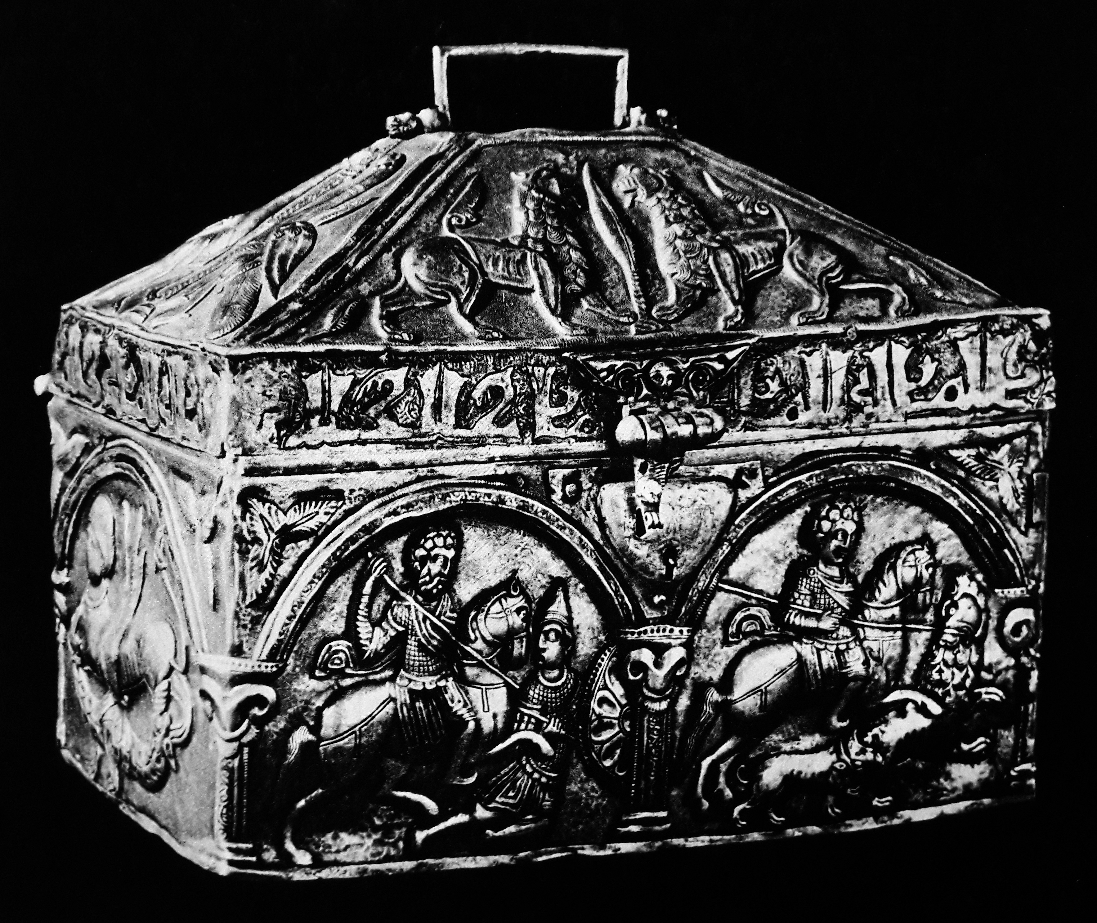 Photograph